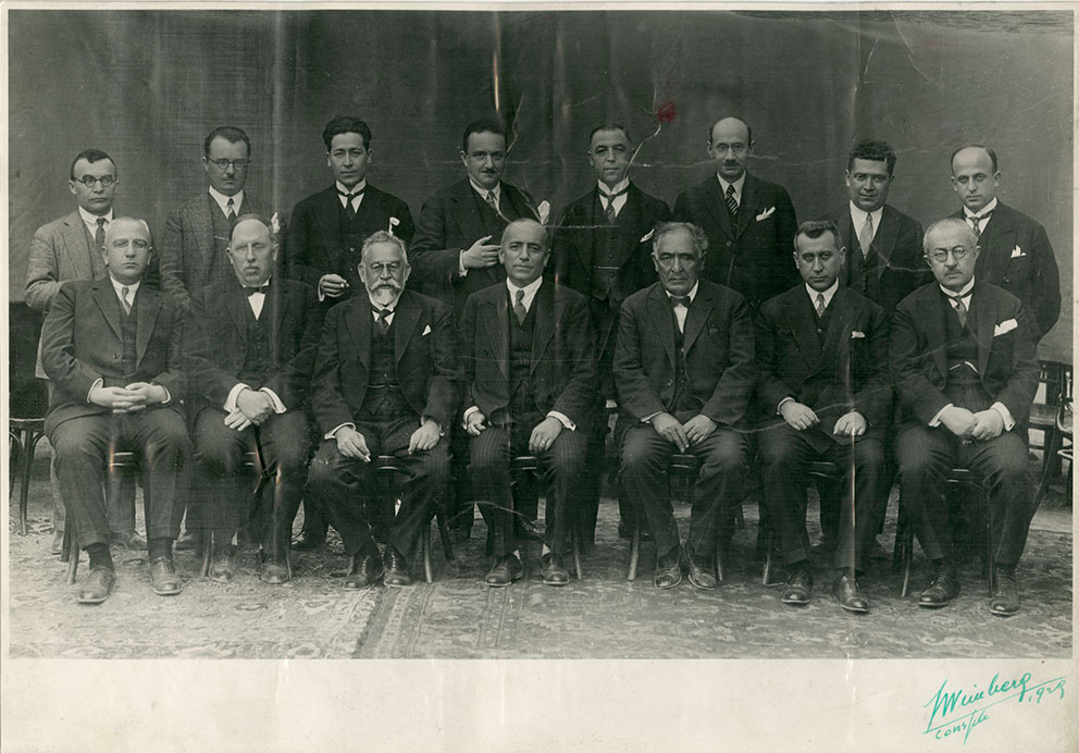 Ankara Law School First Academicians